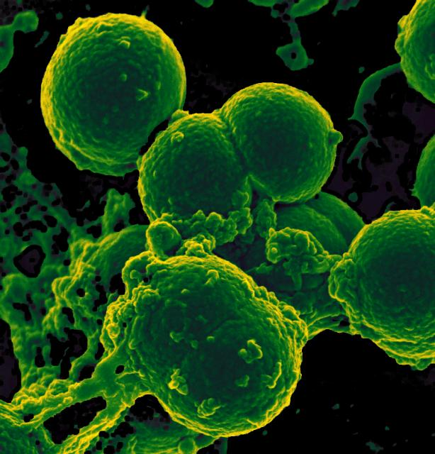 Scanning electron micrograph of neutrophil ingesting methicillin-resistant Staphylococcus aureus bacteria. Credit: NIAID